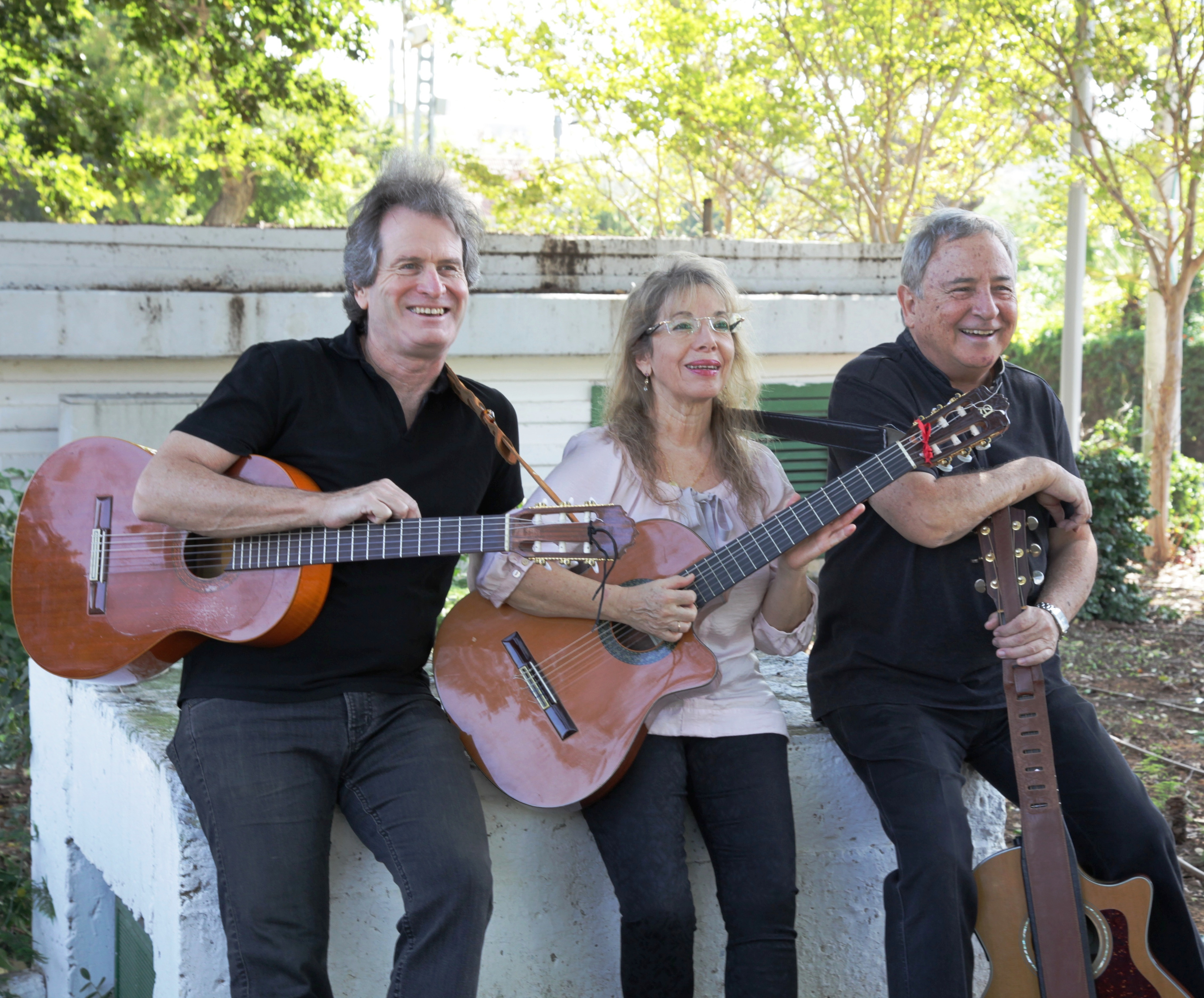 Shloshtenu.